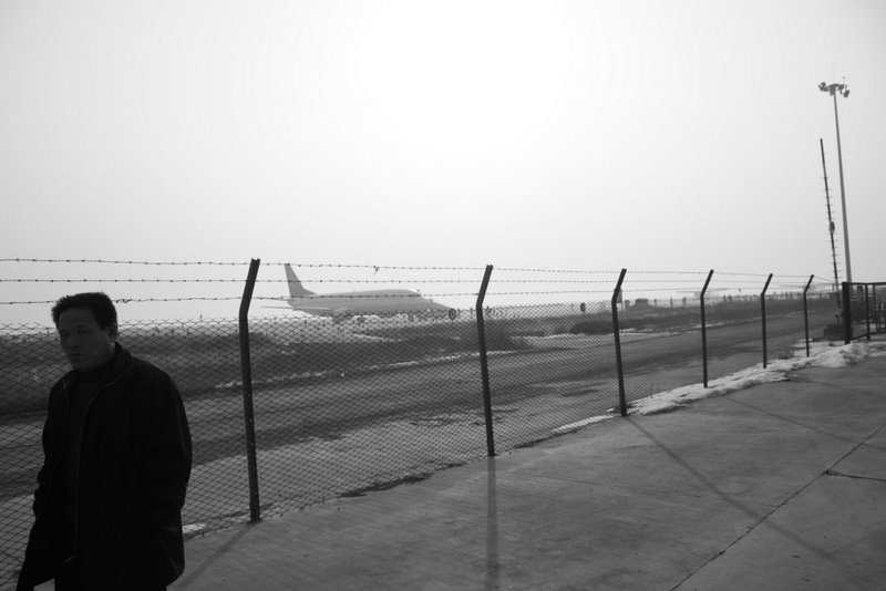 Dongying Yong'an Airport